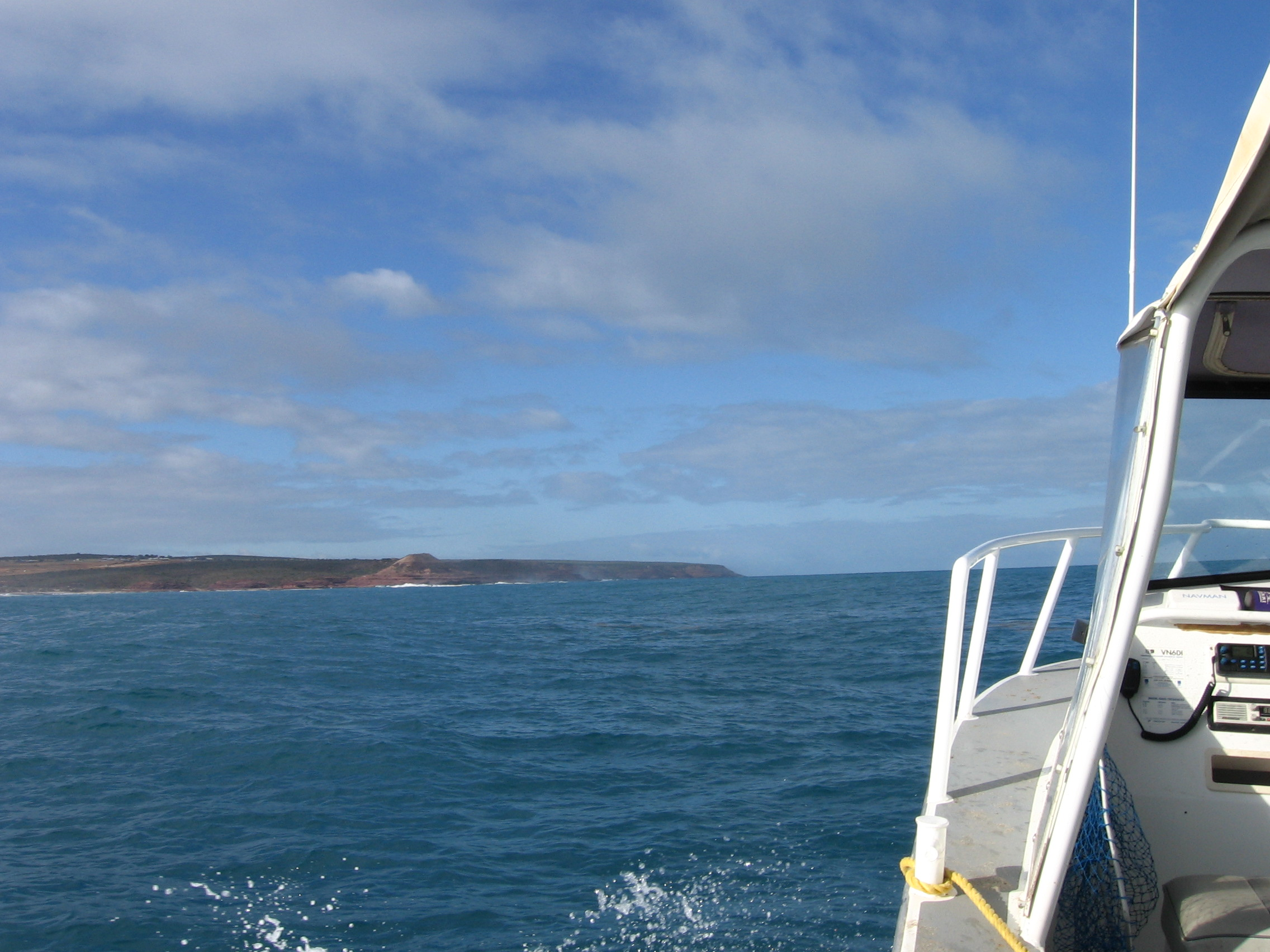 View of coast from boat at sea off Red Bluff, Western Australia